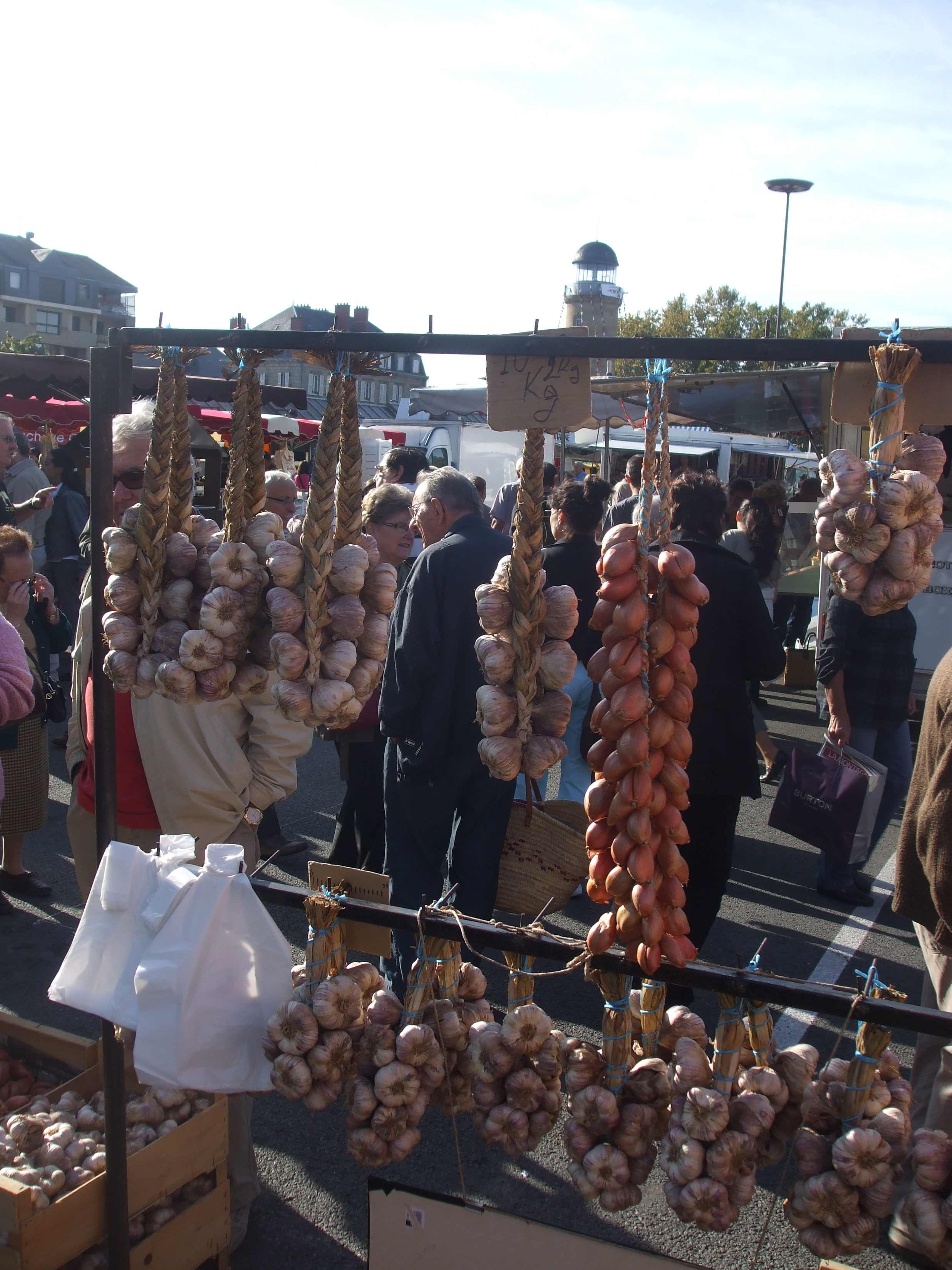 Marché de Brive-la-Gaillarde, France, garlic, shallot